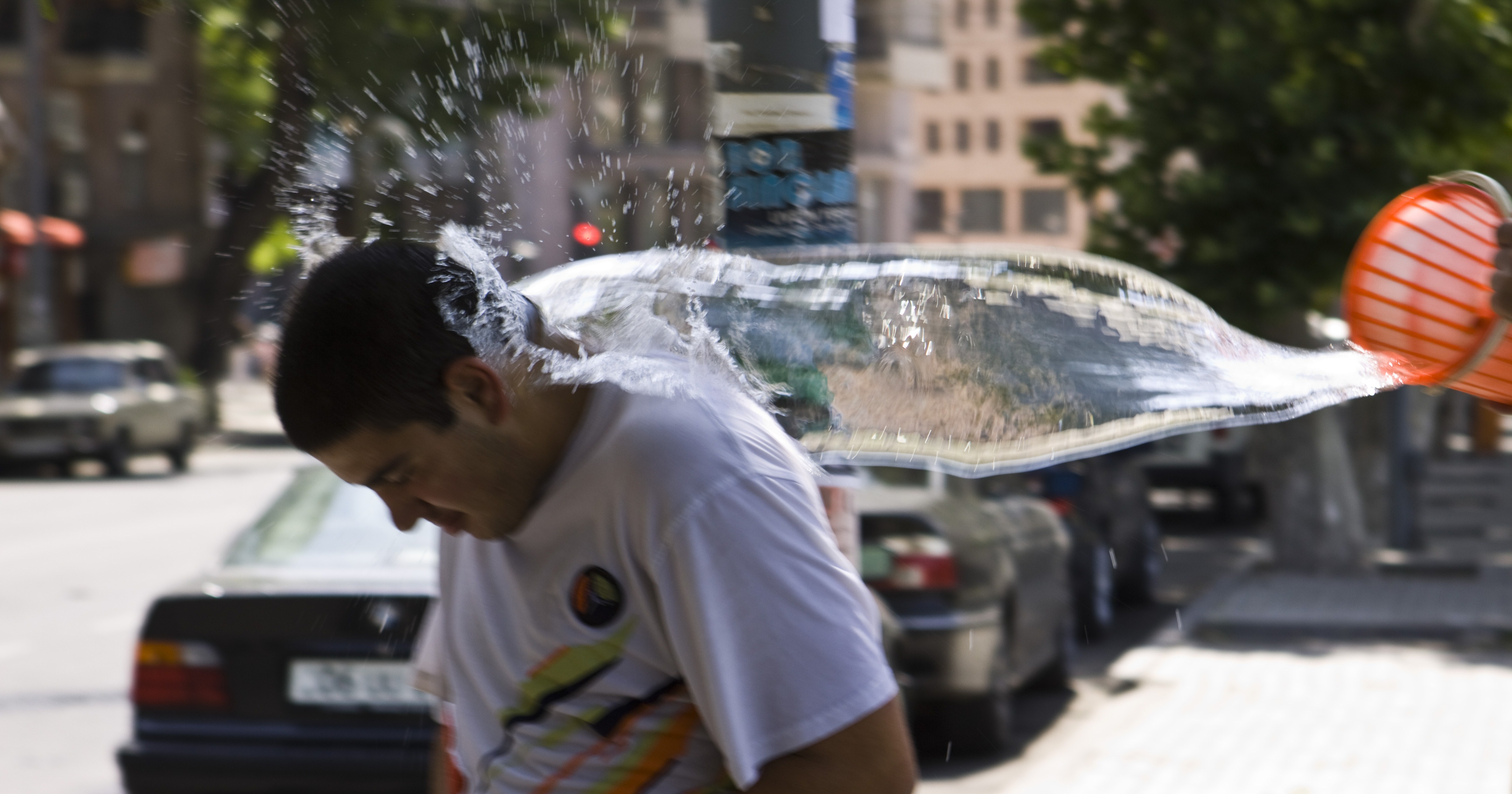 Depicted place: Vardavar